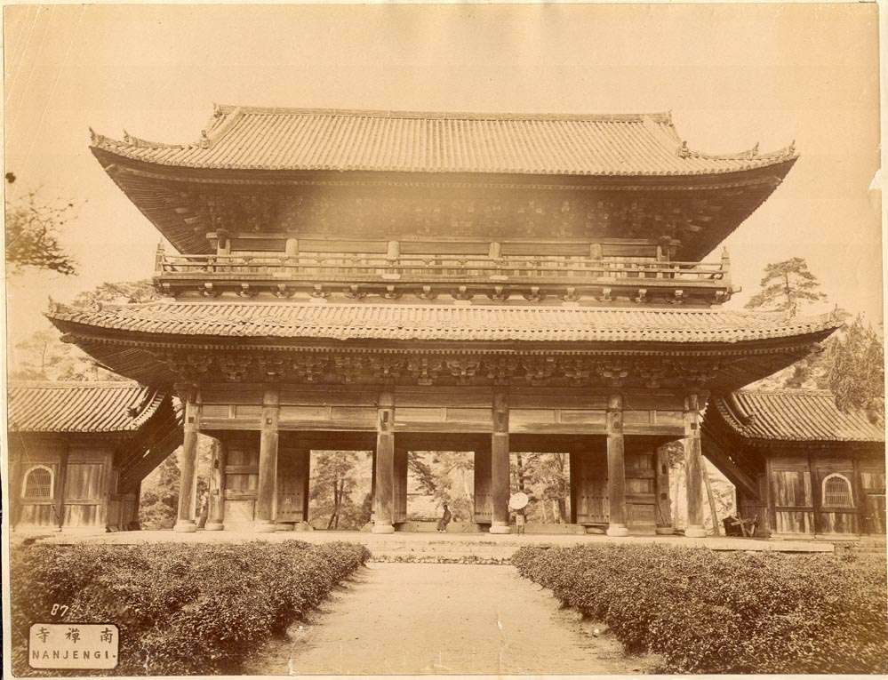 Nanjengi Type: Albumen - Hand Colored Image Size: 8 1/4 x 10 3/4 in Title/Subject: "87" "Nanjengi" in English & Japanese Photograph Studio: Perhaps Yokoyama Matsusaburo Mounted on split card Condition: Good. The title box and lettering is typical of those used by Yokoyama. The number "87" is inscribed in white above the title box.